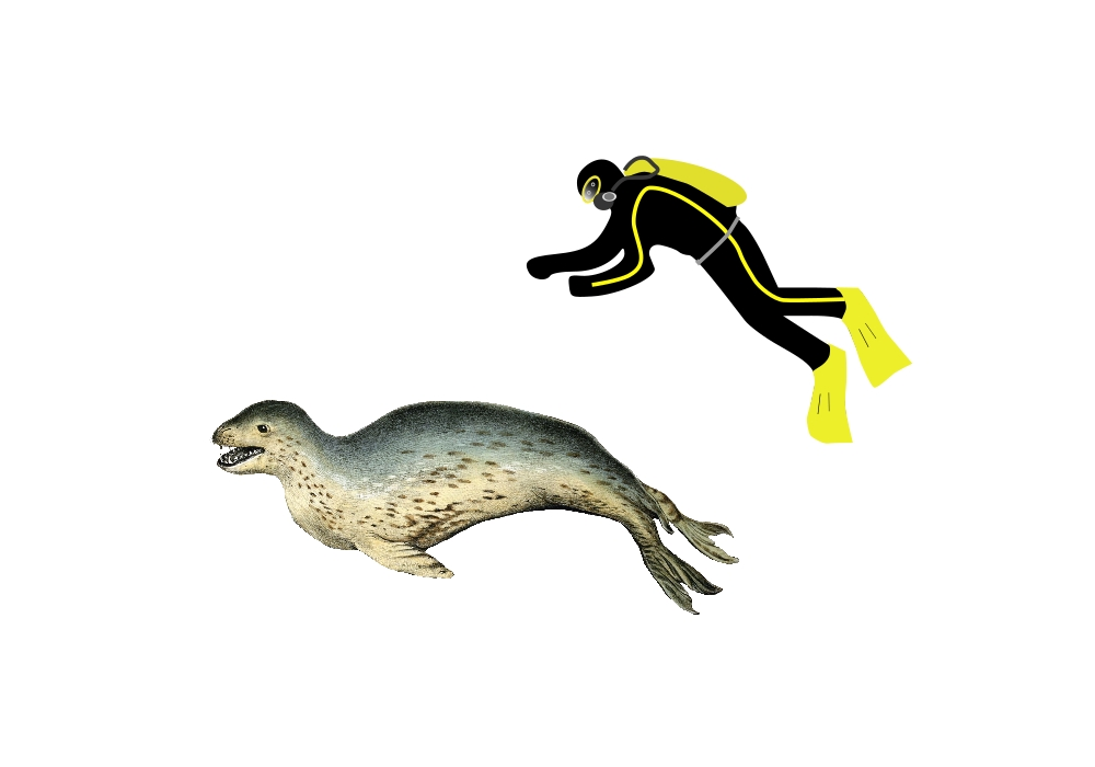 Comparison of the size of a leopard seal (Hydrurga leptonyx) (average size of 2.4–3.5 m (7.9–11.5 ft)) and a human (assumed height of 1.82 m (6 ft)).